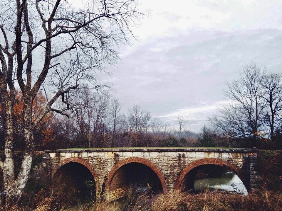 Northeast Texas Trail railroad bridge near Roxton Texas